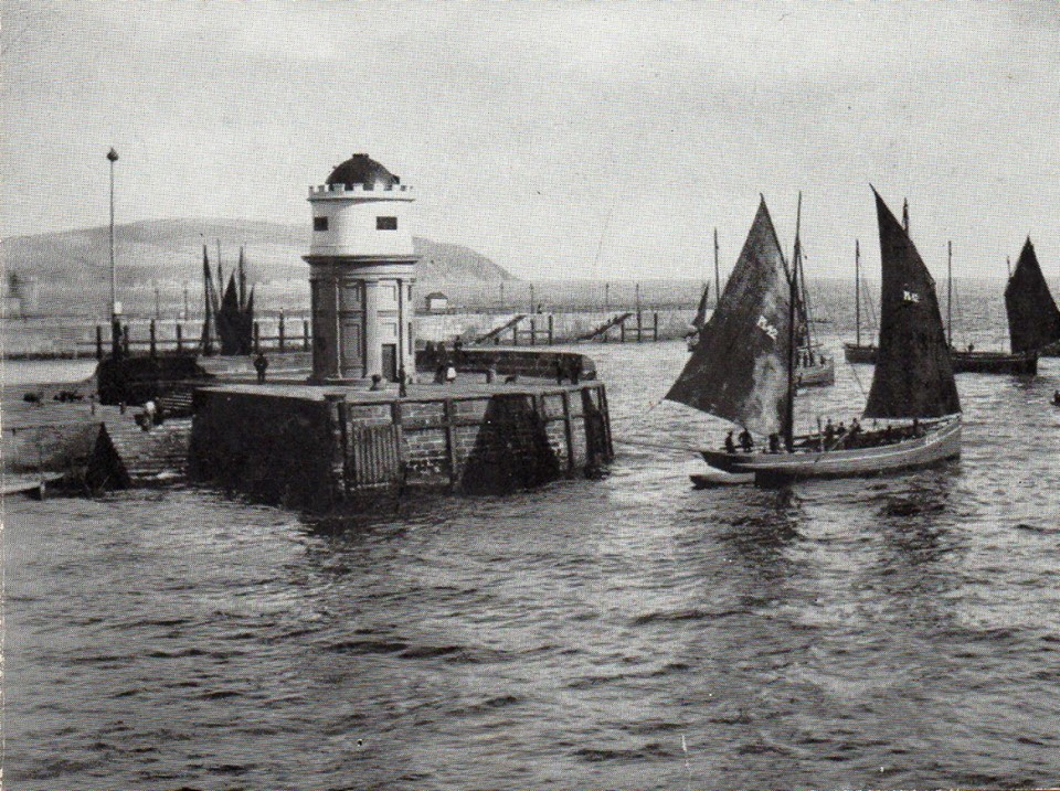 An image of the old Georgian lighthouse at the end of the Red Pier, Douglas, Isle of Man